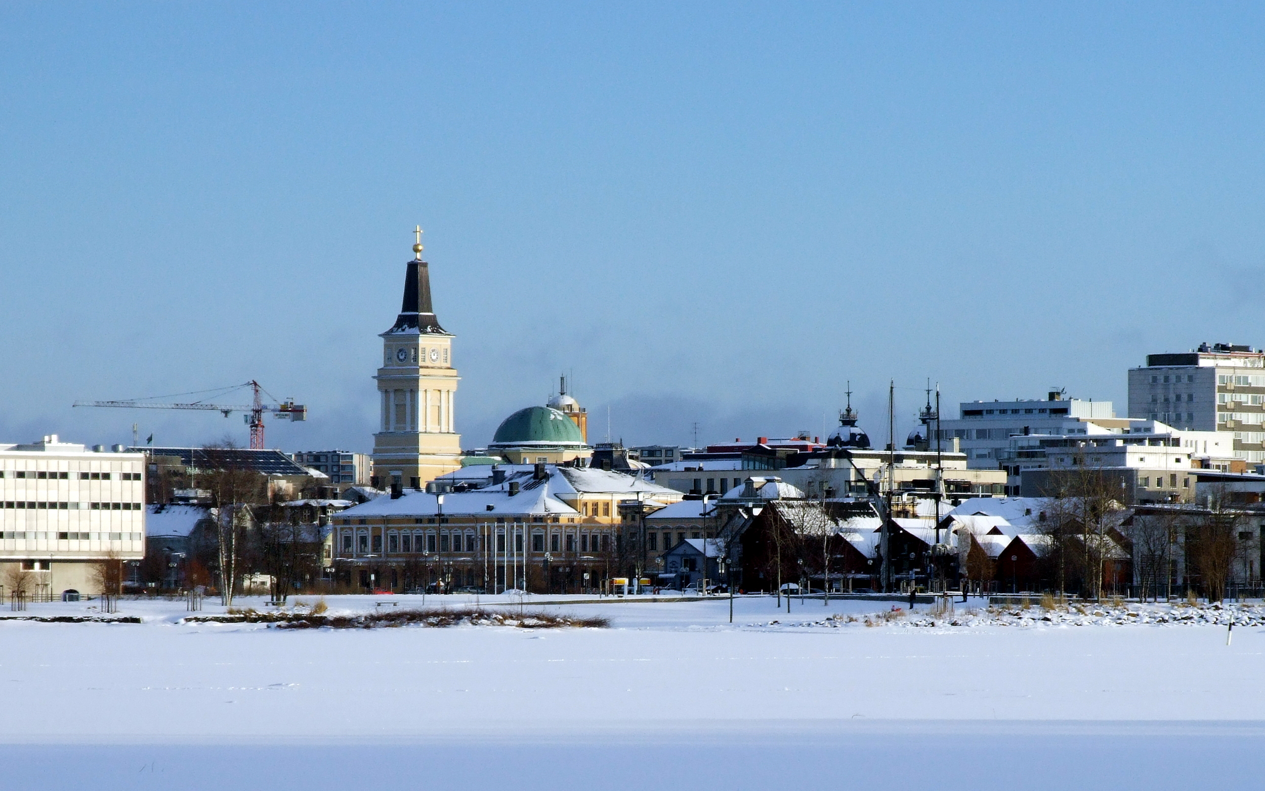 Oulu skyline in the winter.